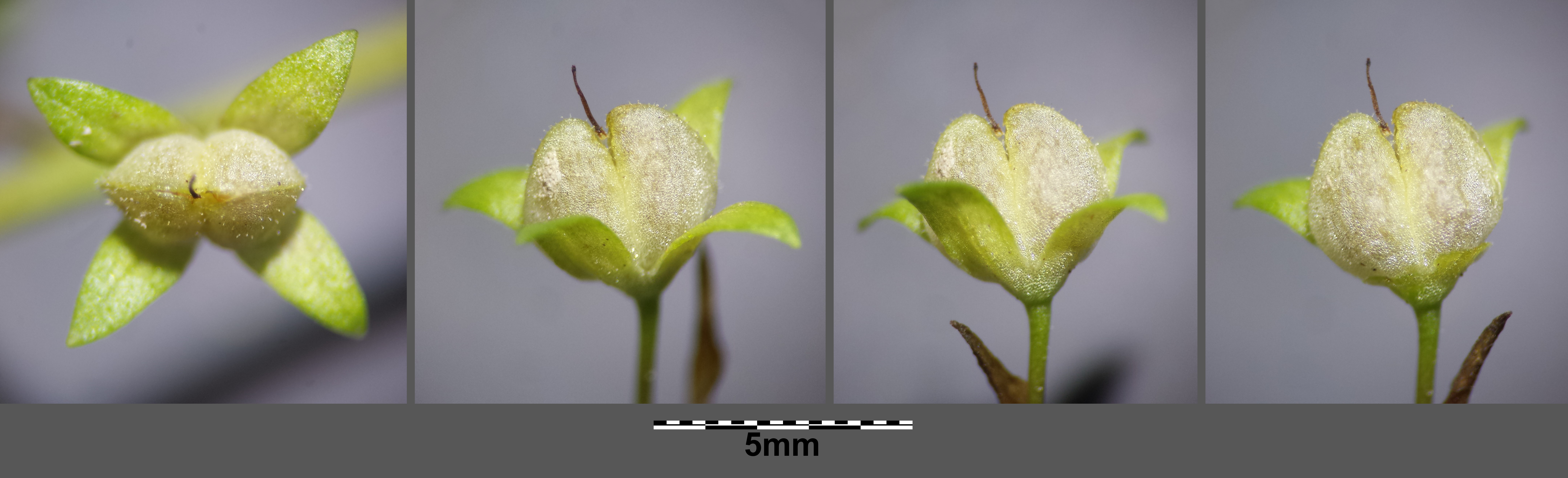 Fruit Taxonym: Veronica catenata ss Fischer et al. EfÖLS 2008 ISBN 978-3-85474-187-9 Location: pond near Goldenes Bründl, Rohrwald, district Korneuburg, Lower Austria - ca. 225 m a.s.l. Habitat: shore of a pond